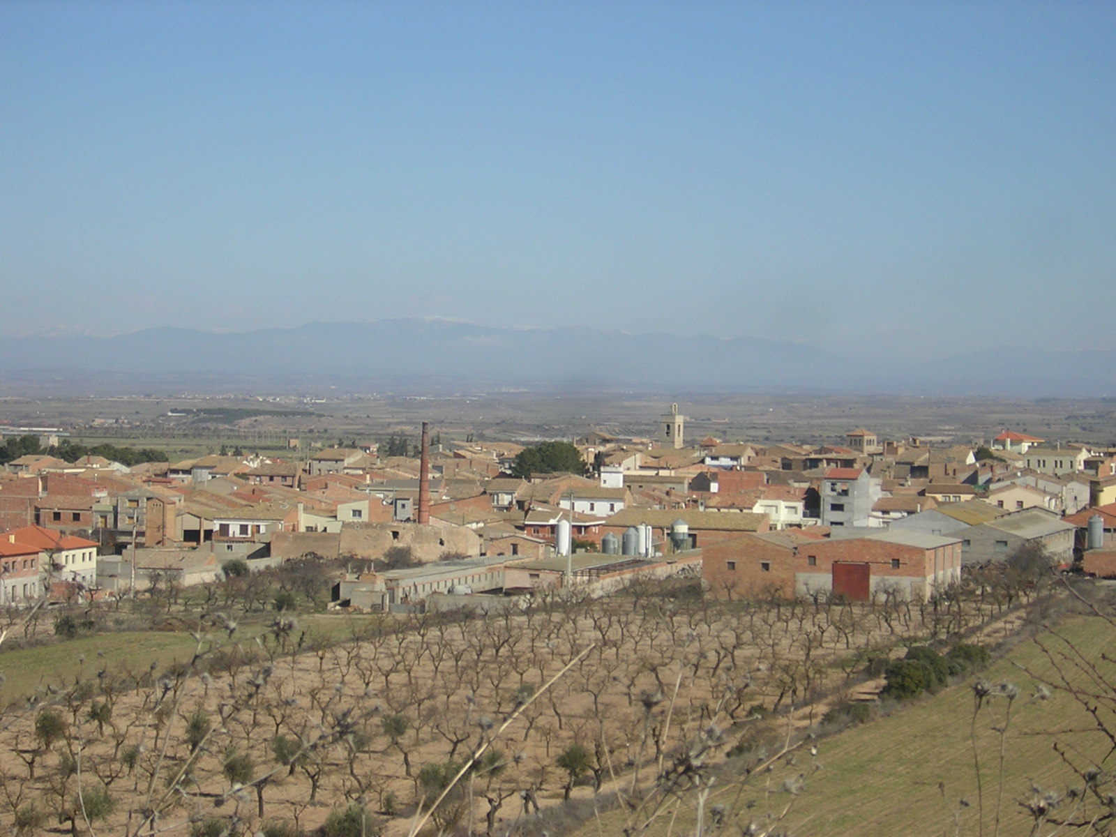 own work